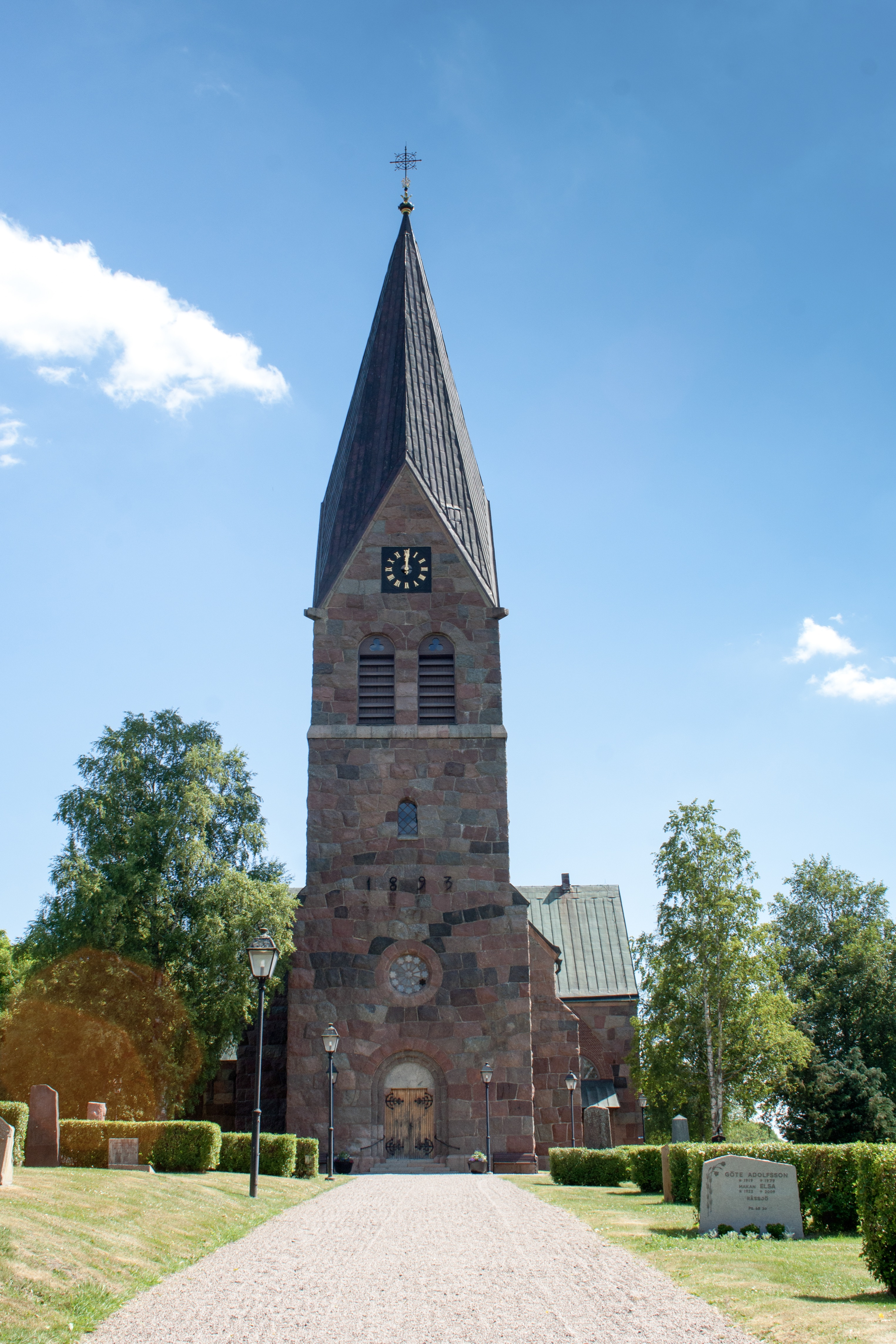 Church in Lommaryd, Aneby Kommun, Sweden.